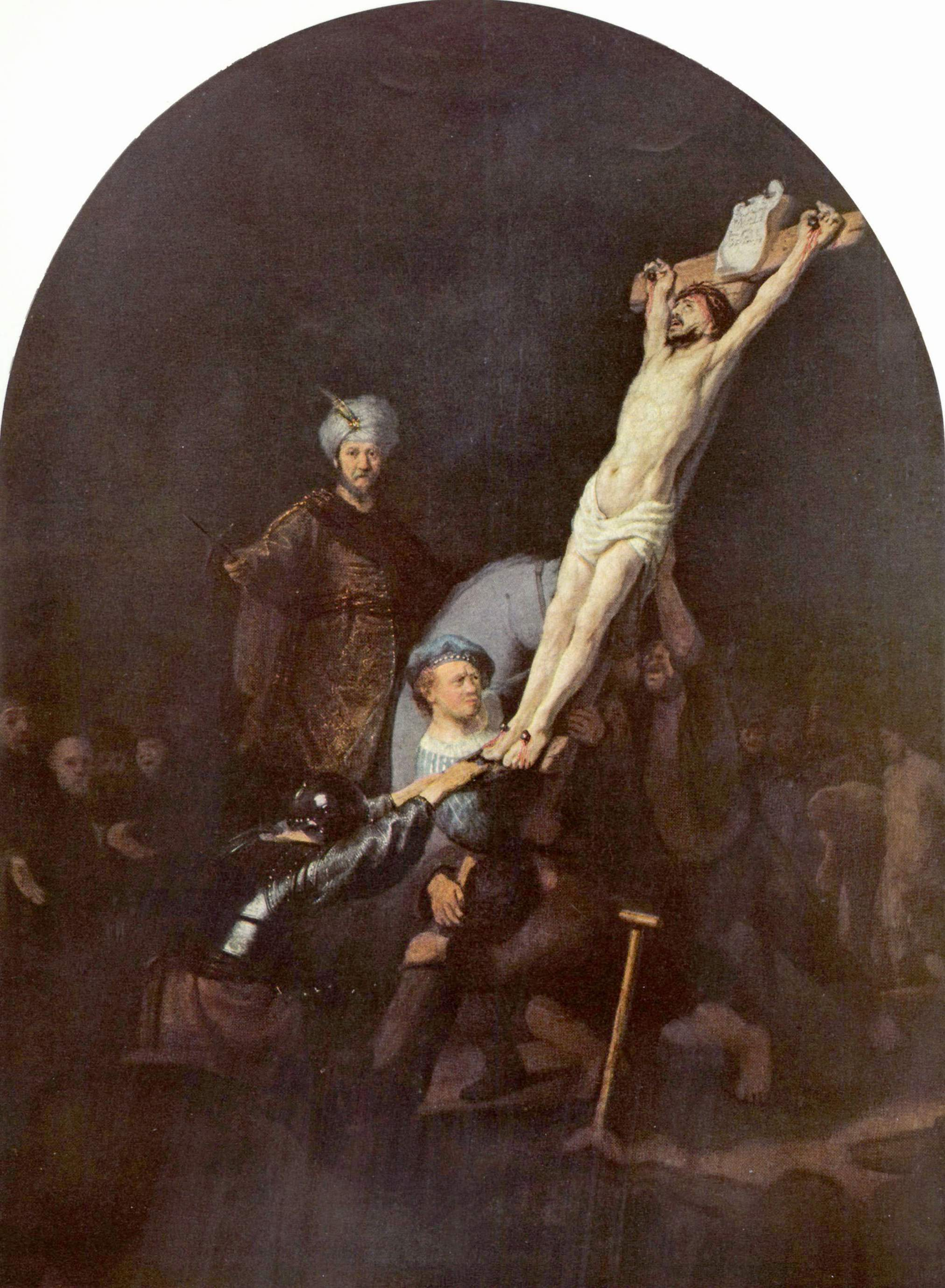 Second painting of Rembrandt's Passion Cycle for Frederick Henry, Prince of Orange